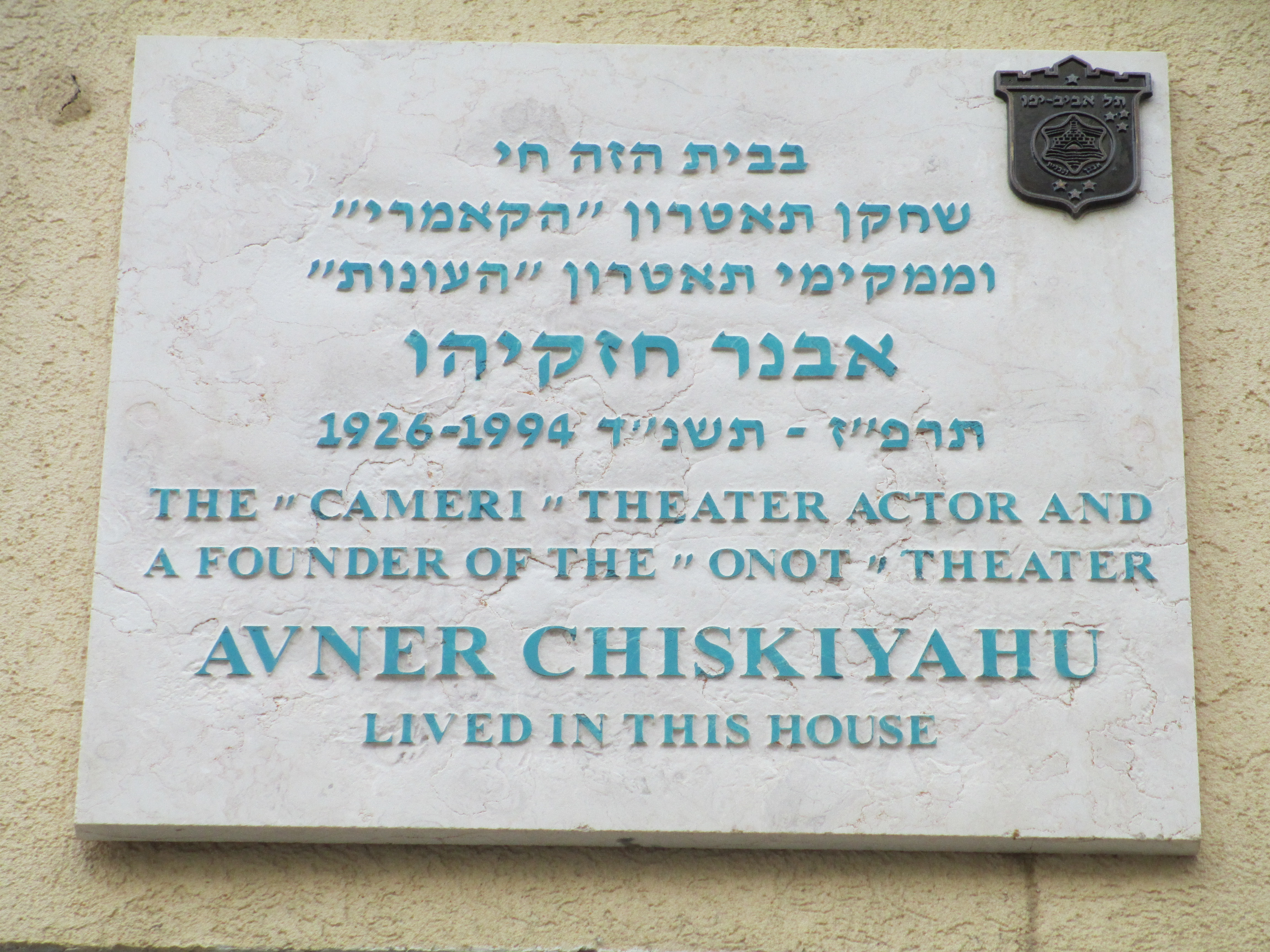 memorial plaque to the actor avner chiskiyahu in tel aviv לוחית זיכרון לשחקן אבנר חזקיהו ברח' סירקין 12 בתל אביב